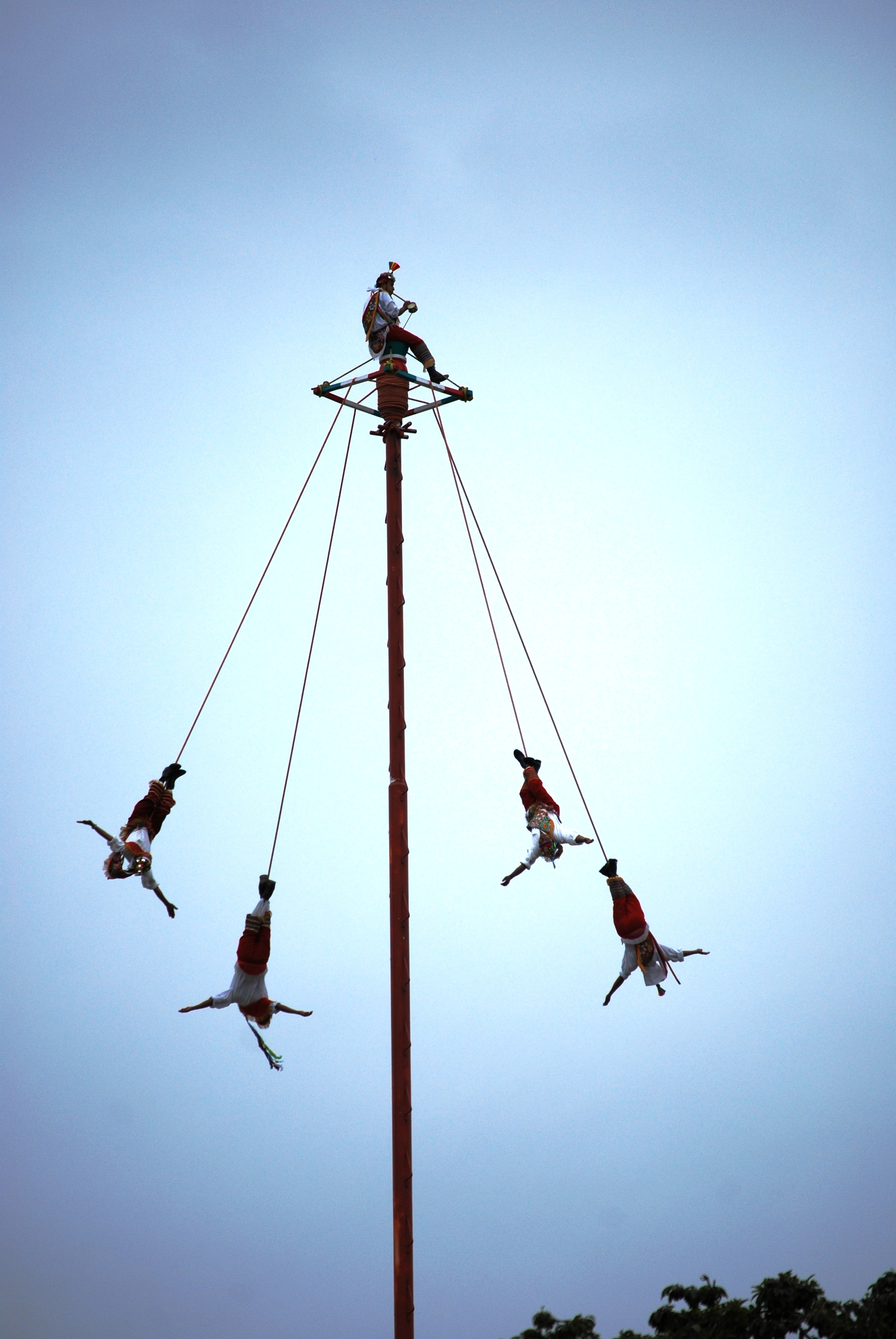 Voladores at the Church of the Assumption, Papantla, Veracruz